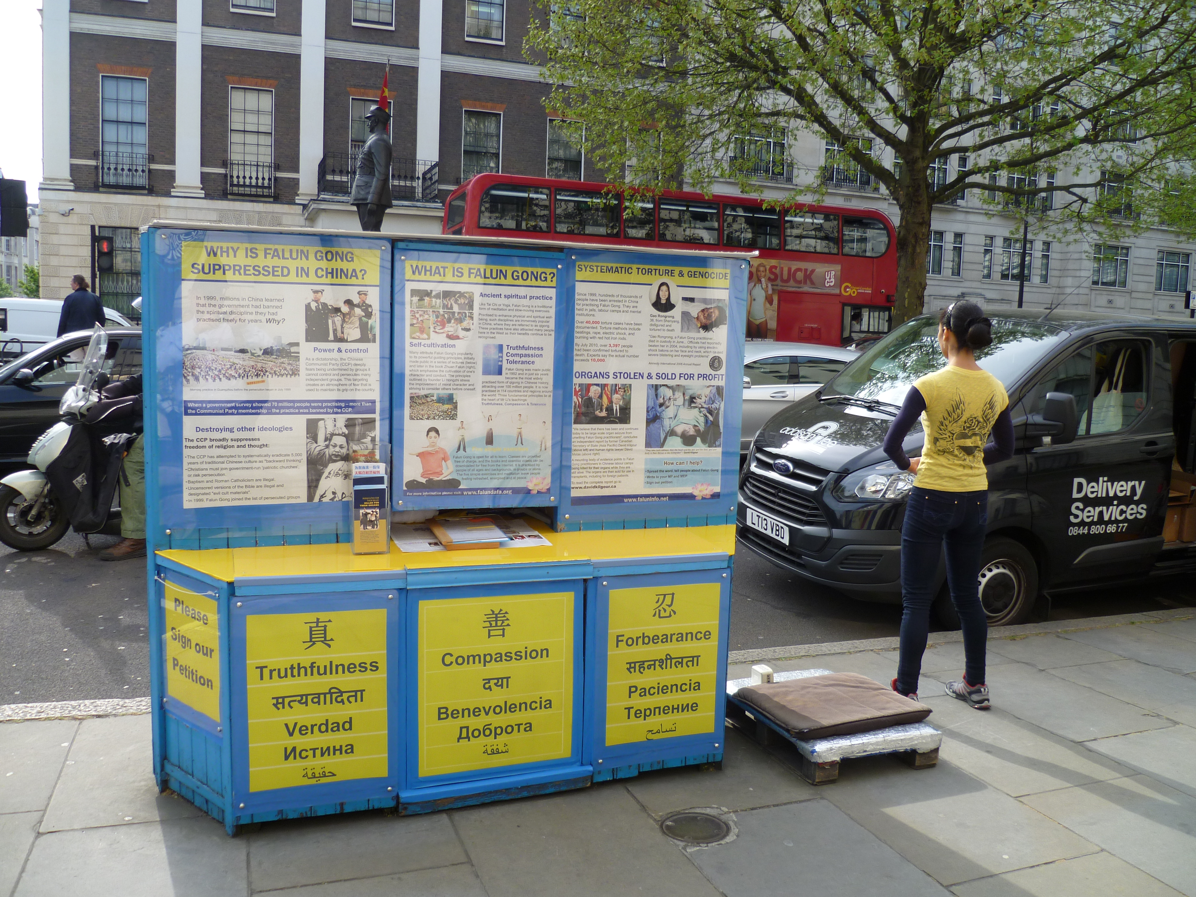 Falun Gong protest in London 24.04.15